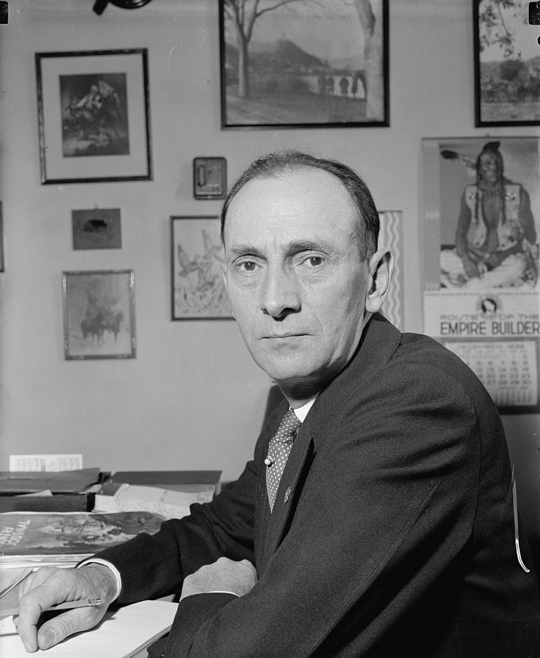 Rep. Charles I. Faddis, Democrat of Pa., Dec. 1939 .